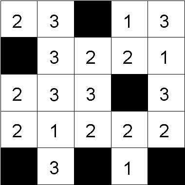 Solved Keisuke Puzzle grid